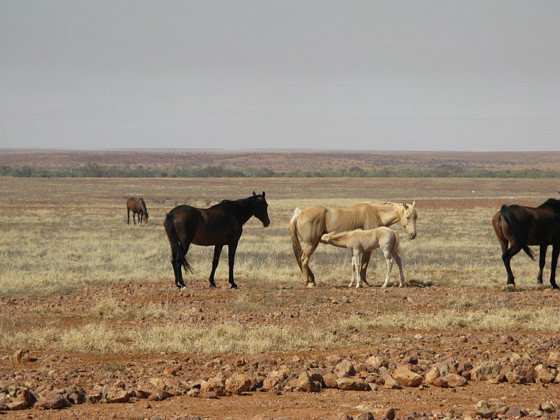 Brumbies next to the Innamincka Track